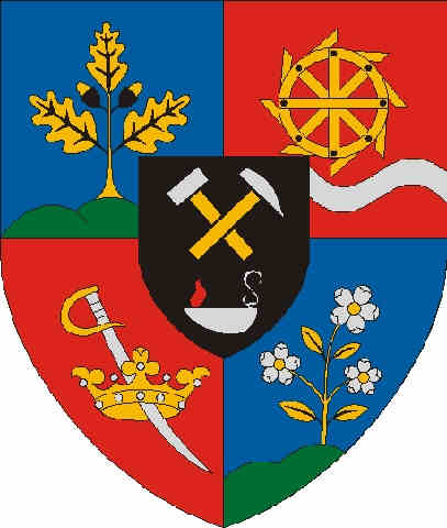 Coat of arms of Pázmánd, Hungary